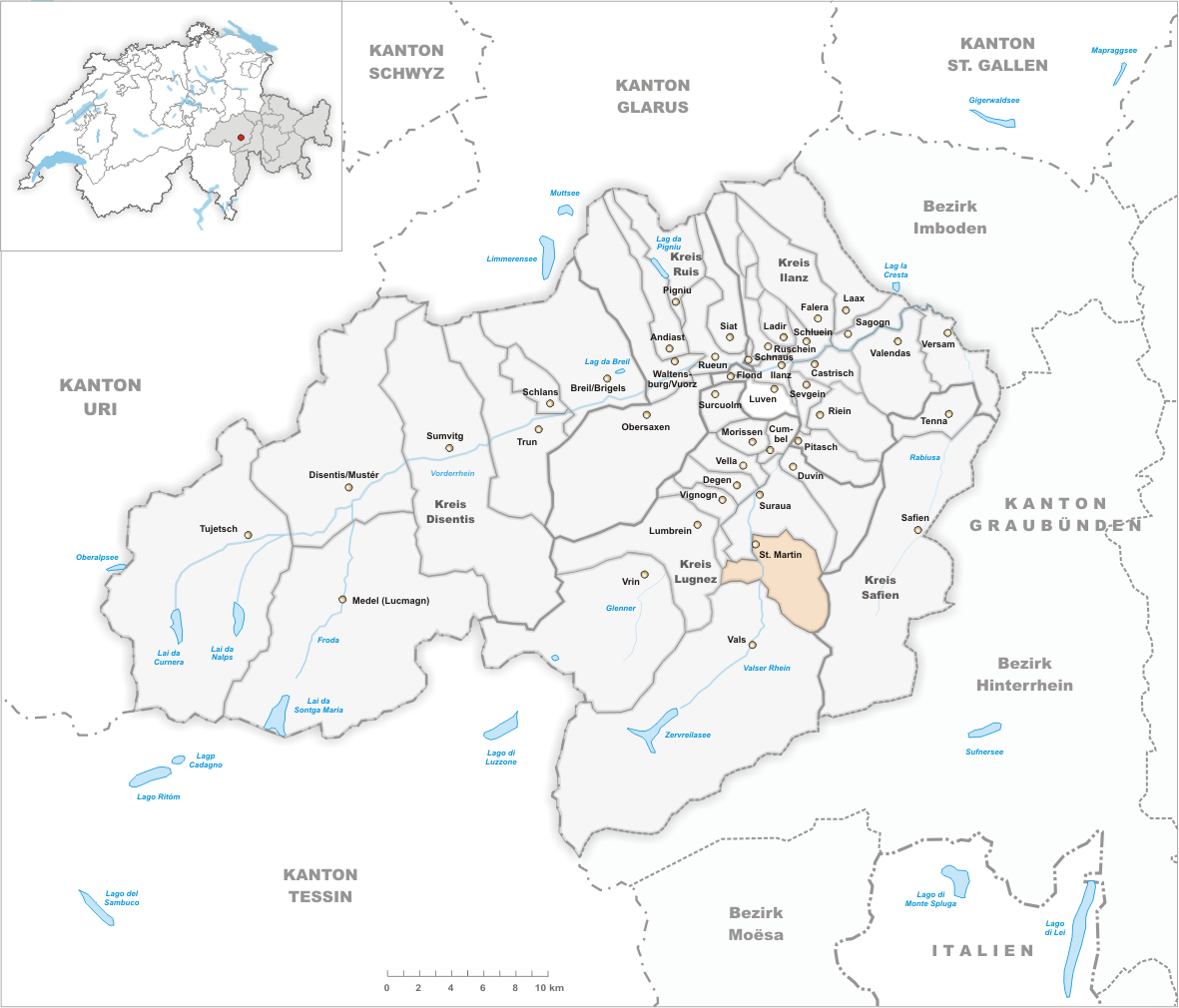 Municipality St. Martin